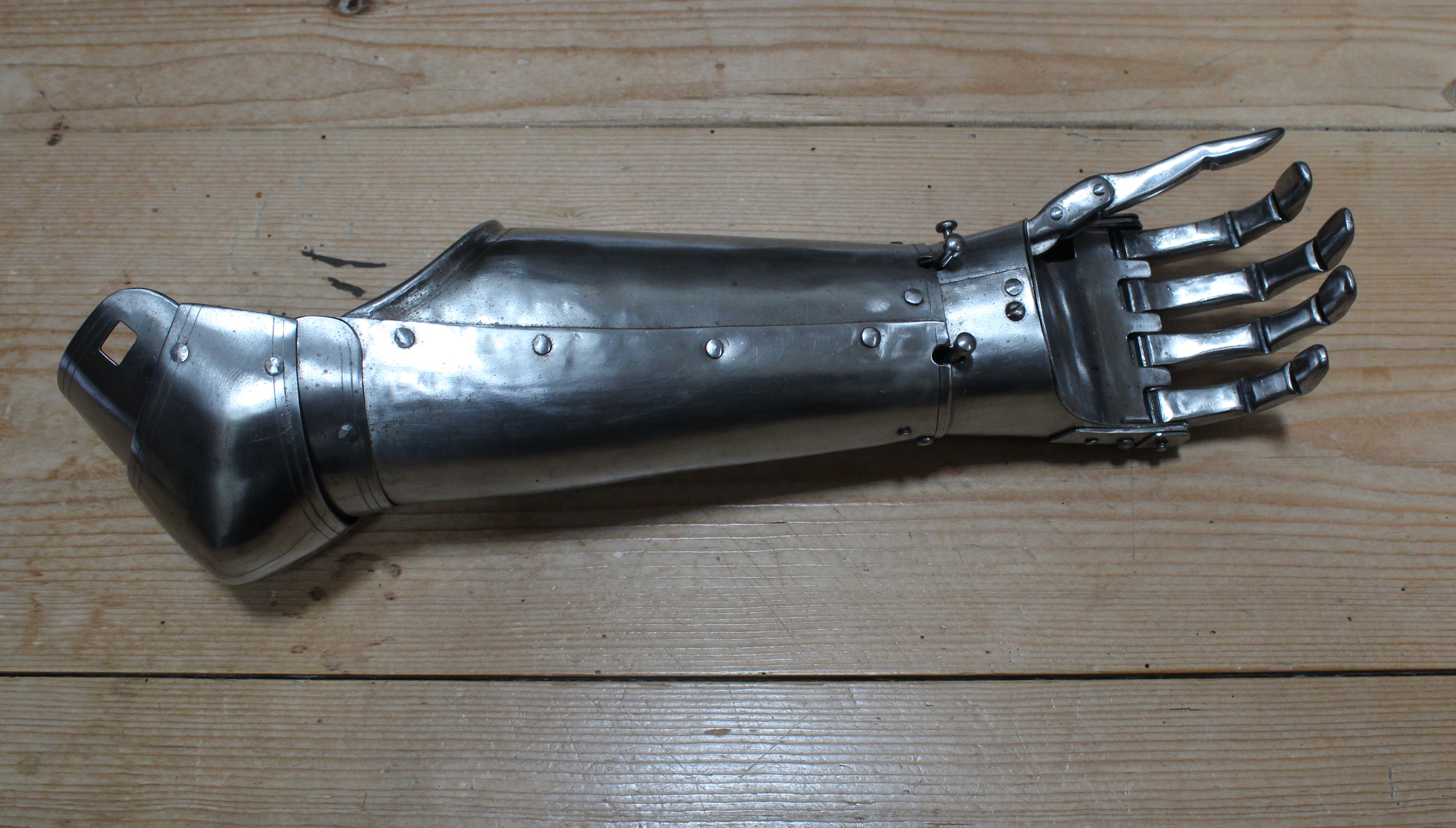 Replica of a prosthetic hand on display at anteroom to the Great Hall, Cotehele House, Cornwall manufactured in 2010. The original, which is of French or German origin and which probably dates from between 1550 and 1600 is on display in the Great Hall.